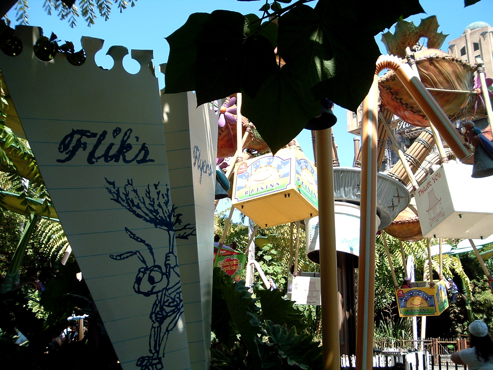 Flik's Flyers Attraction